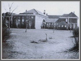 Back of school in 1923. Edith Aitken (16 June 1861 – 2 November 1940) was the British headmistress. She was the founding head at Pretoria High School for Girls which she retired from in 1923.